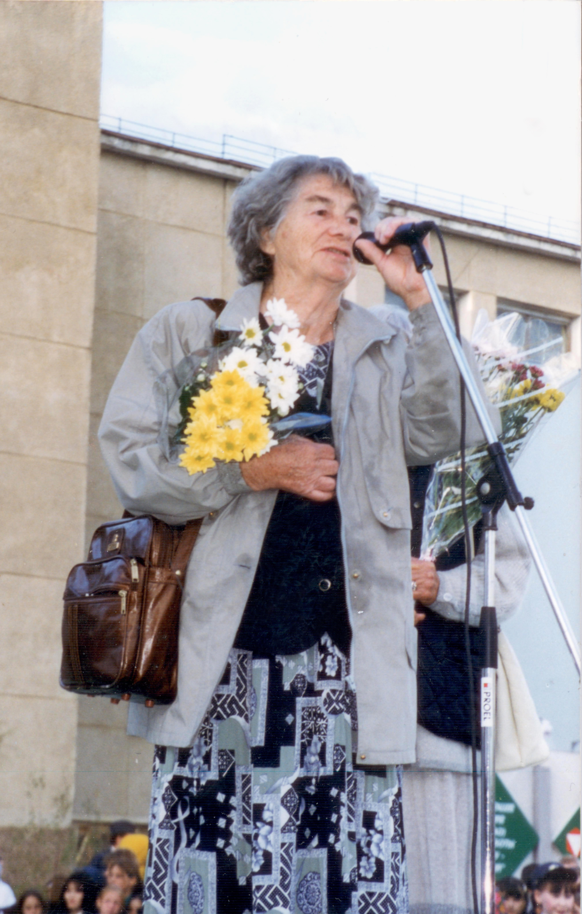 Sarsadskikh Natalia Nikolaevna, a speech at the 50th anniversary of diamond discovery by the Vilyuy (Yakutia)